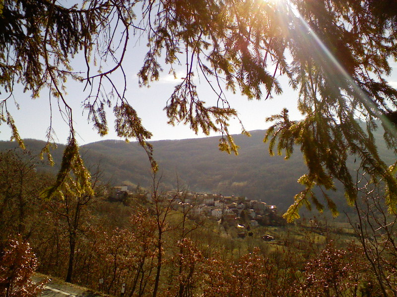 Panorama Cicogni, Italy